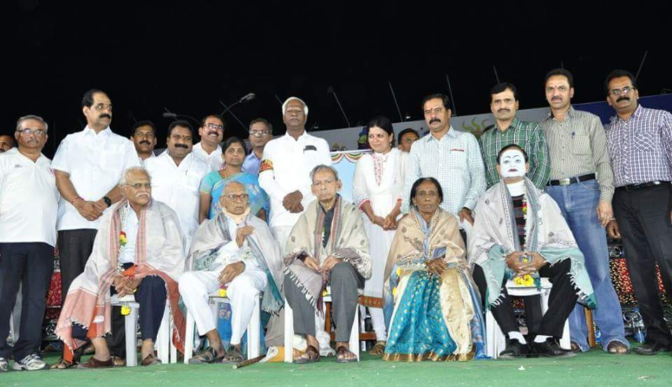 Vidyavati among other officials felicitated on Telangana formation Day ( 2nd June, 2015)